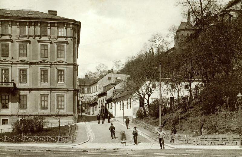 Skalní street, Brno, Czech Republic